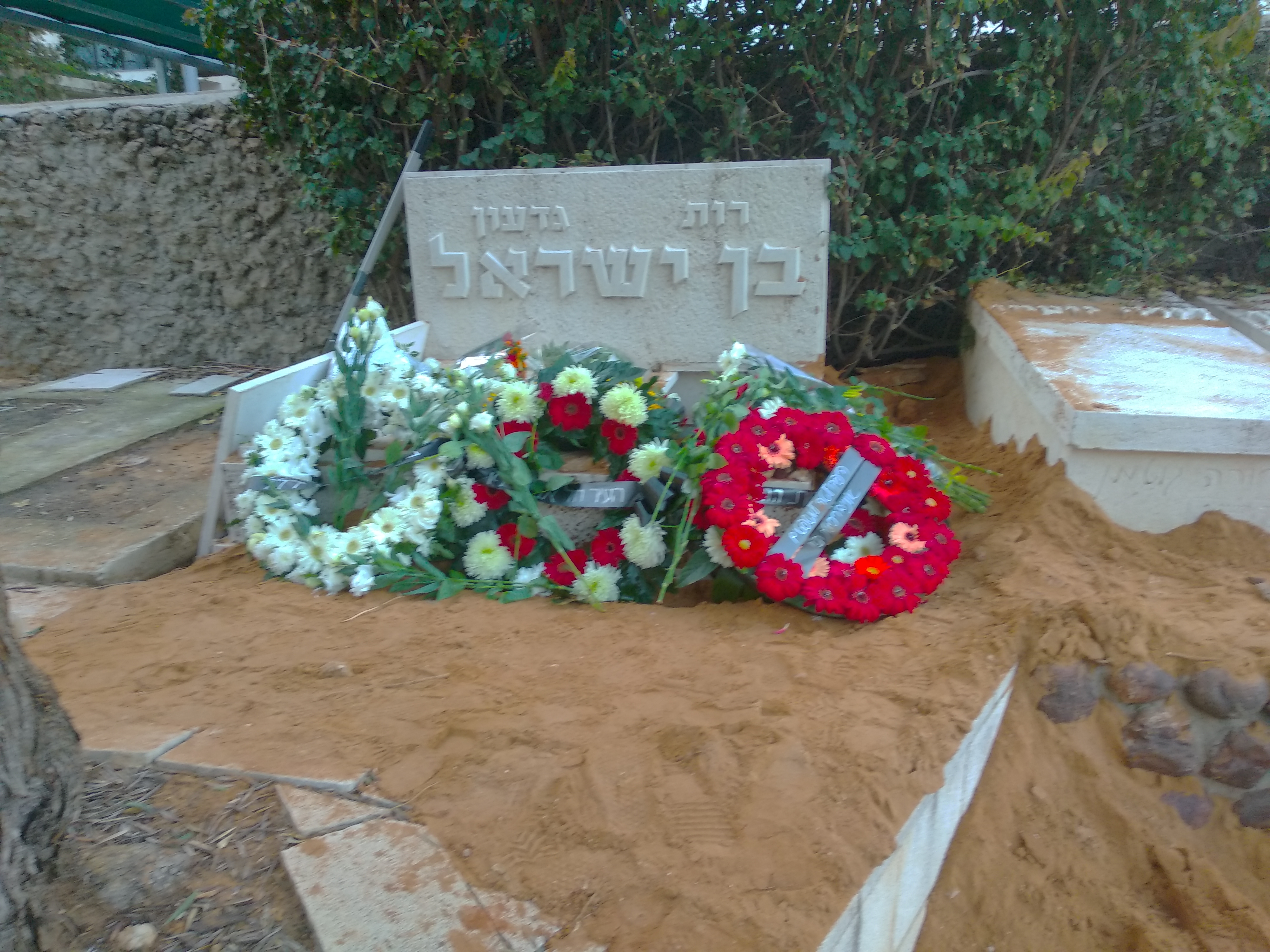 Grave of Ruth and Gideon Ben-Israel at the end of Ruth's funeral